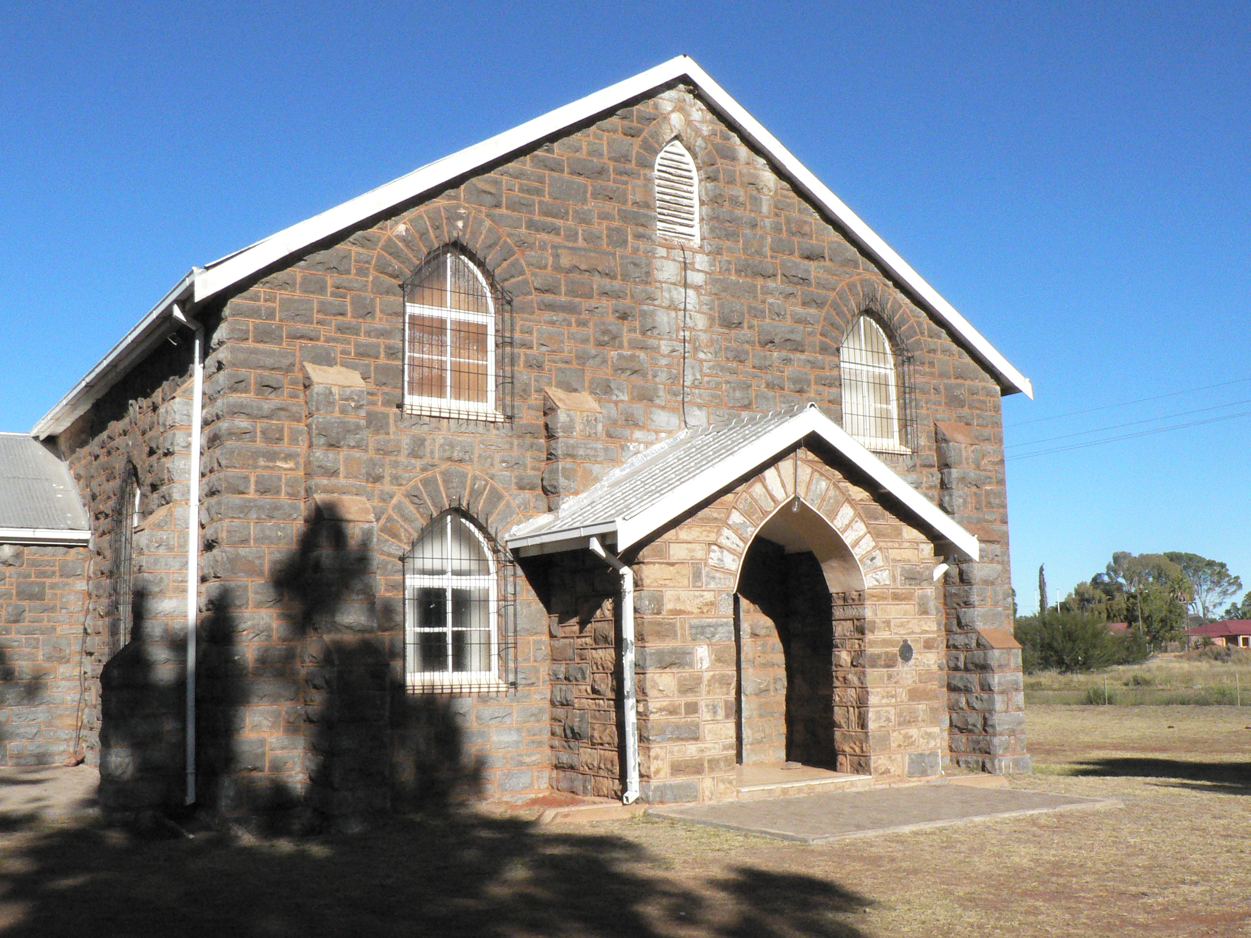 This media shows a South African Protected Site with SAHRA file reference 9/2/074/0005.